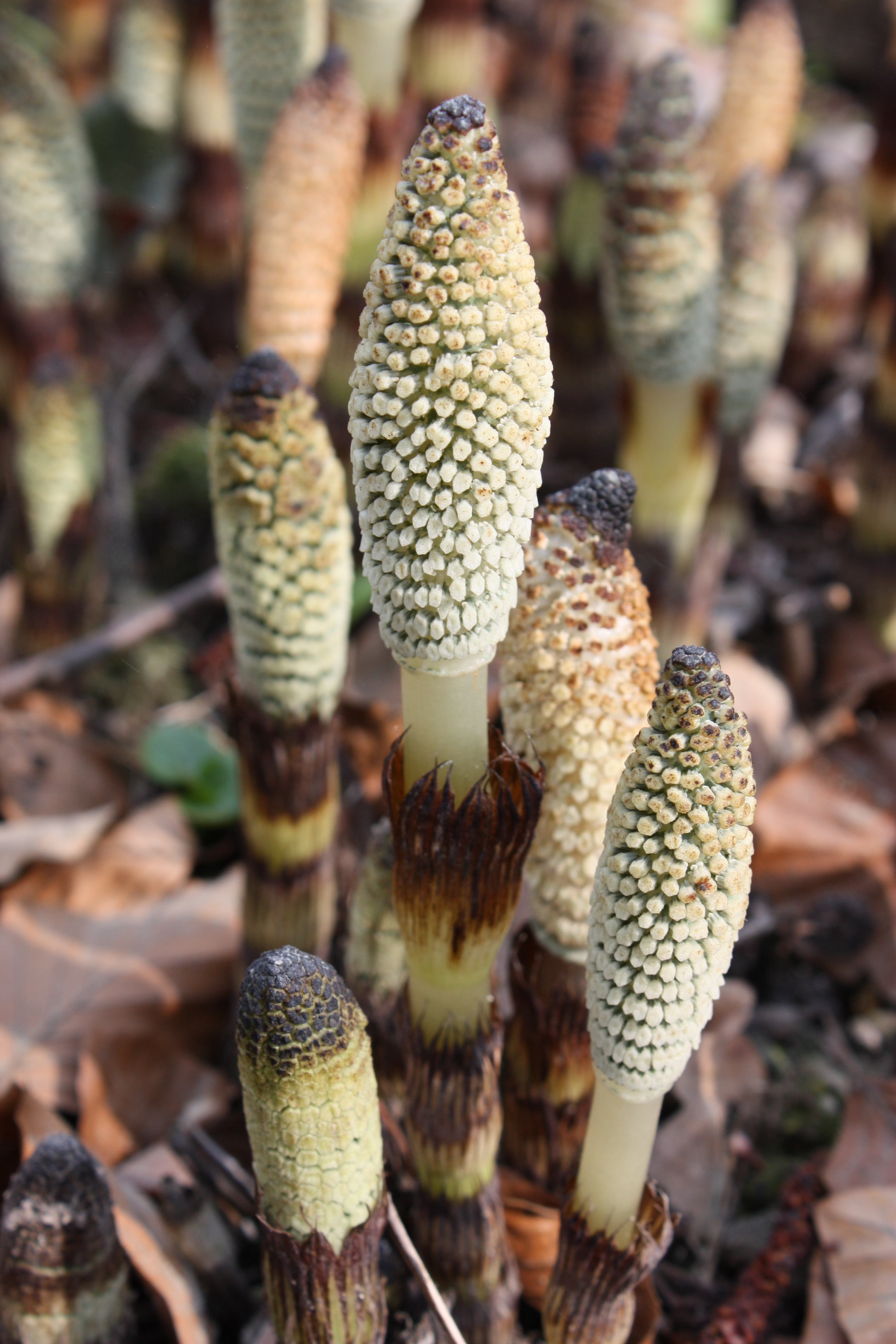 Equisetum telmateia, Botanical Garden of the Goethe University Frankfurt